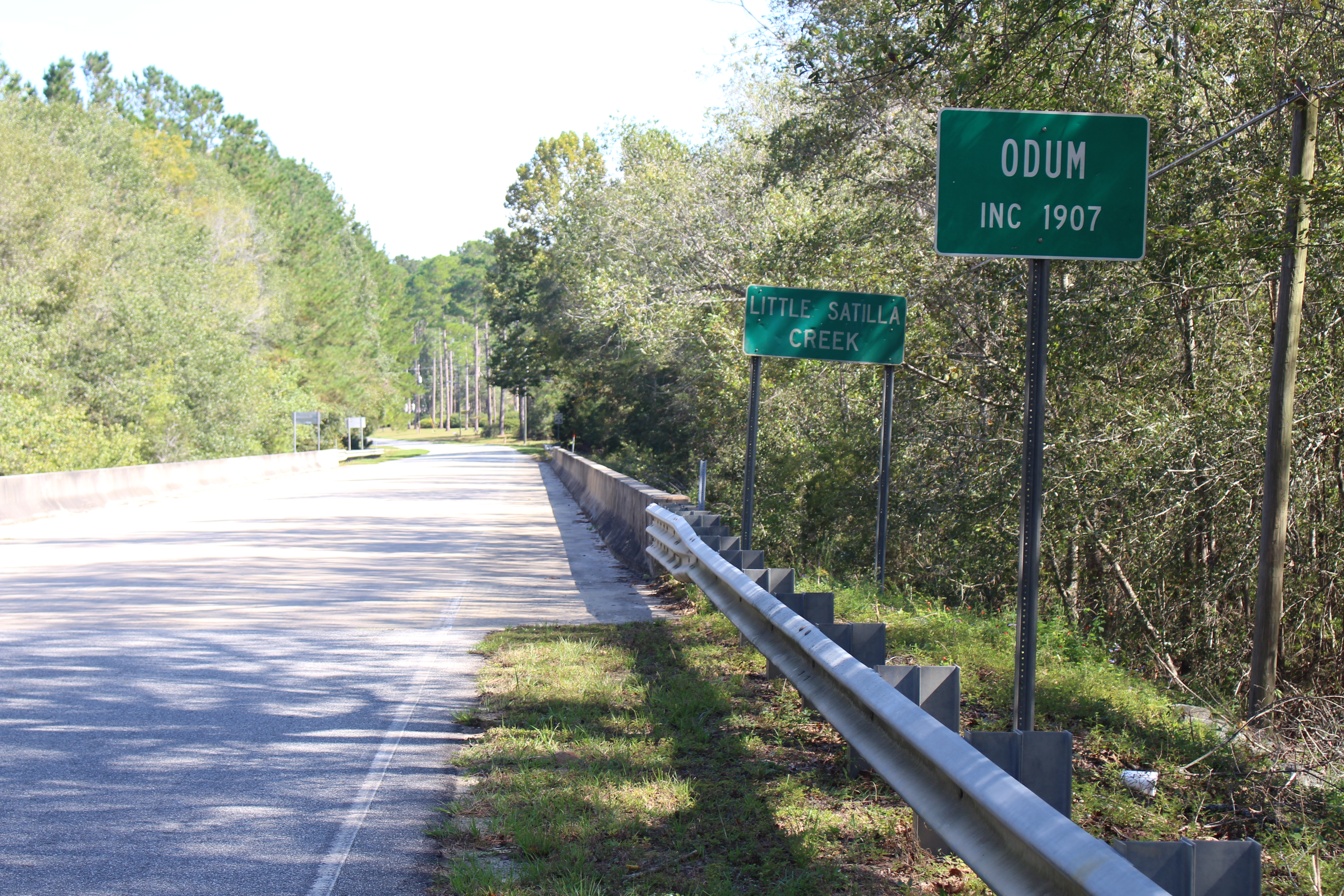 Odum limit, Little Satilla Creek bridge, S Church St, Odum, Wayne County, Georgia